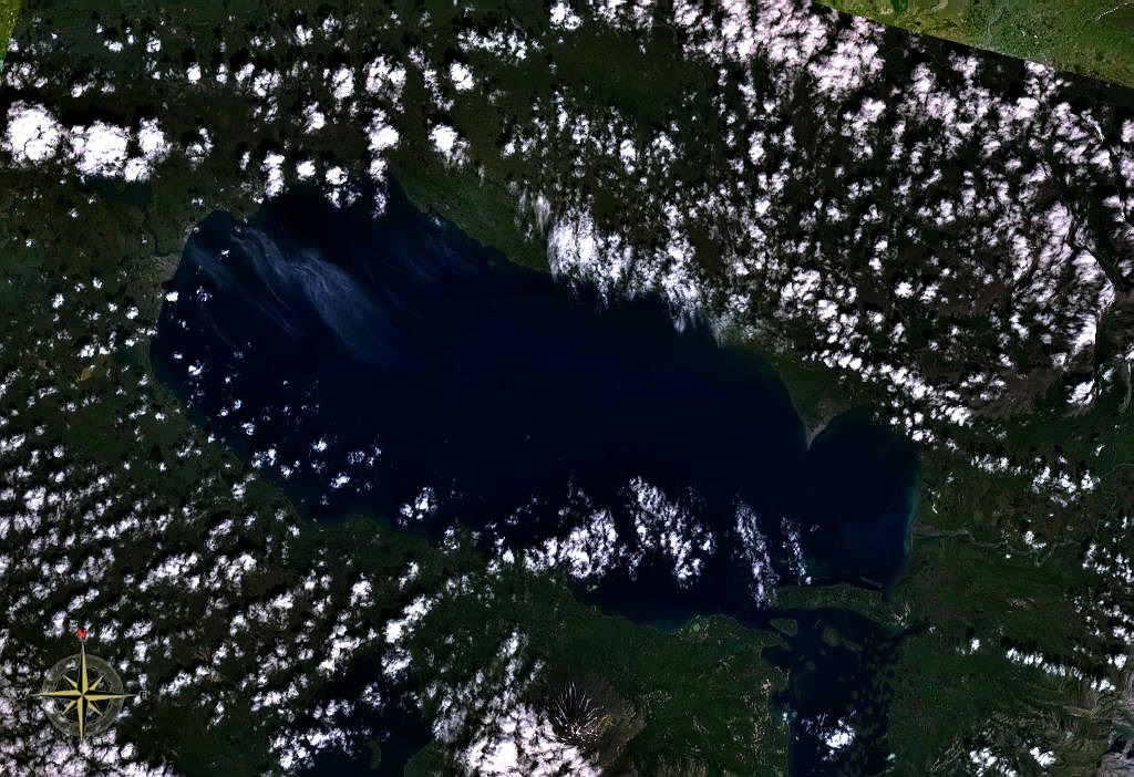 Becharof Lake in Alaska, USA